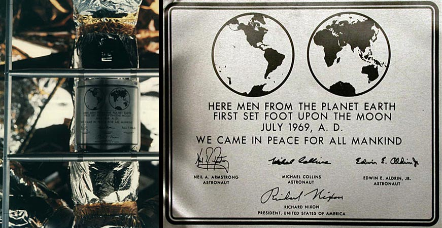 The historical plaque on the Apollo 11 lunar module "Eagle". Photograph of the stainless steel dedication plaque (right) placed on the Apollo 11 lunar module "Eagle" (left). Inscription: "HERE MEN FROM THE PLANET EARTH FIRST SET FOOT UPON THE MOON JULY 1969, A. D. WE CAME IN PEACE FOR ALL MANKIND" The plaque is signed by the three crew members of Apollo 11 (Neil Armstrong, Michael Collins and Edwin E. Aldrin, Jr) and US President Richard Nixon.